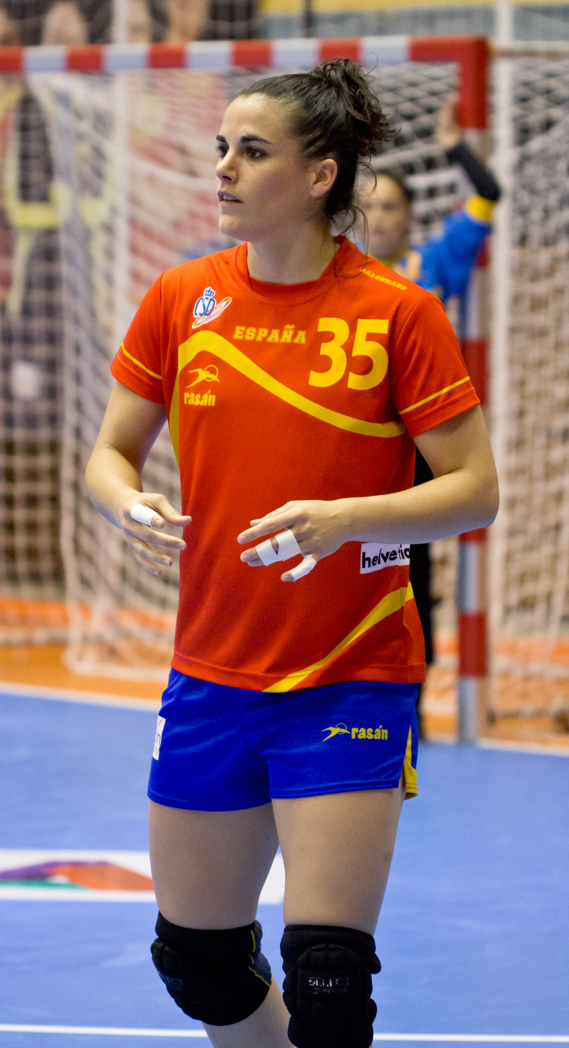 Spain Handball All Star Game 2013, held in San Sebastián de los Reyes, Madrid, Spain.